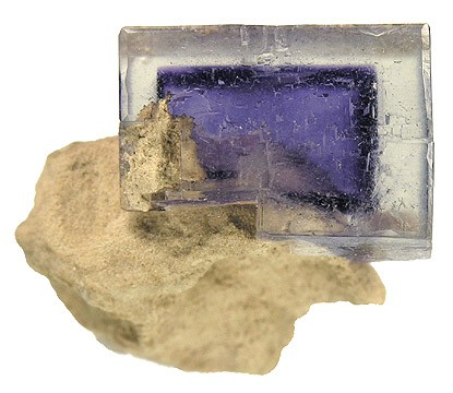 Fluorite Locality: Stoneco Auglaize quarry (Maumee Stone County quarry), Junction, Paulding County, Ohio, USA (Locality at ) Size: 1.8 x 1.7 x 1.1 cm. This is a classic Auglaize Fluorite specimen showing 1.2 cm colorless cube with well-centered, distinct, rich purple color "phantom" inside. The crystal is in great condition with very sharp faces and excellent gemminess. It is sitting upon a small amount of Dolostone matrix, making for a very aesthetic thumbnail display specimen. Ex. Richard Kosnar Collection.